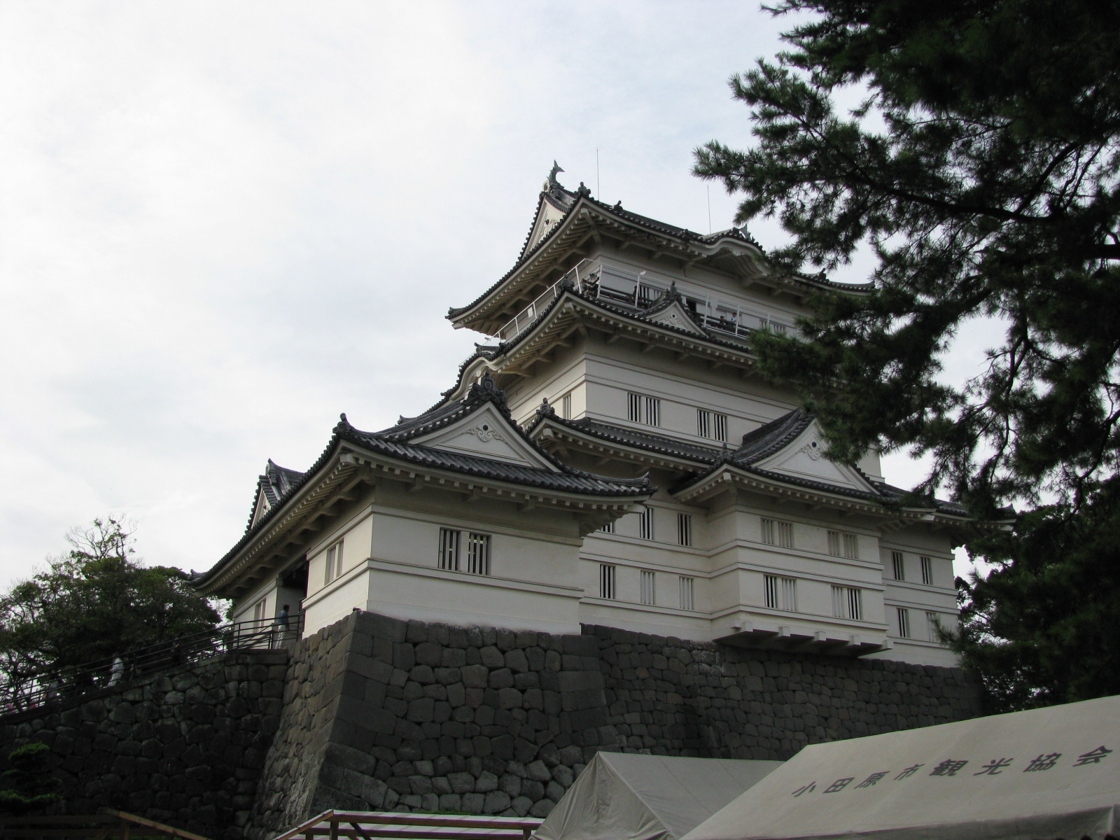 Odawara-jyo